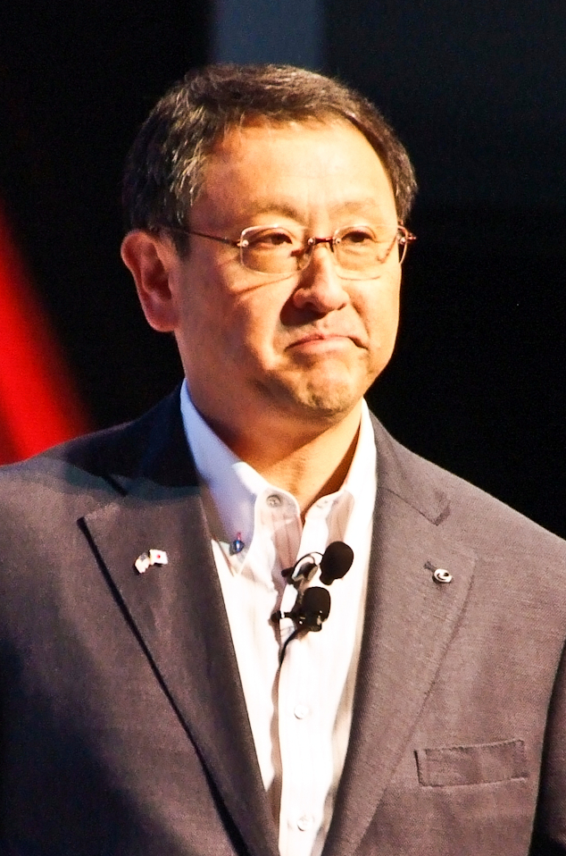 Akio Toyoda, President of the Toyota Motor Corporation, attended the "Lexus GS Launch Event" in Monterey County, California State on August 18, 2011.